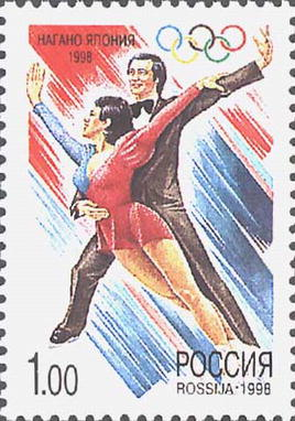 Russian stamp no. 423, commemorating the 1998 Winter Olympics.